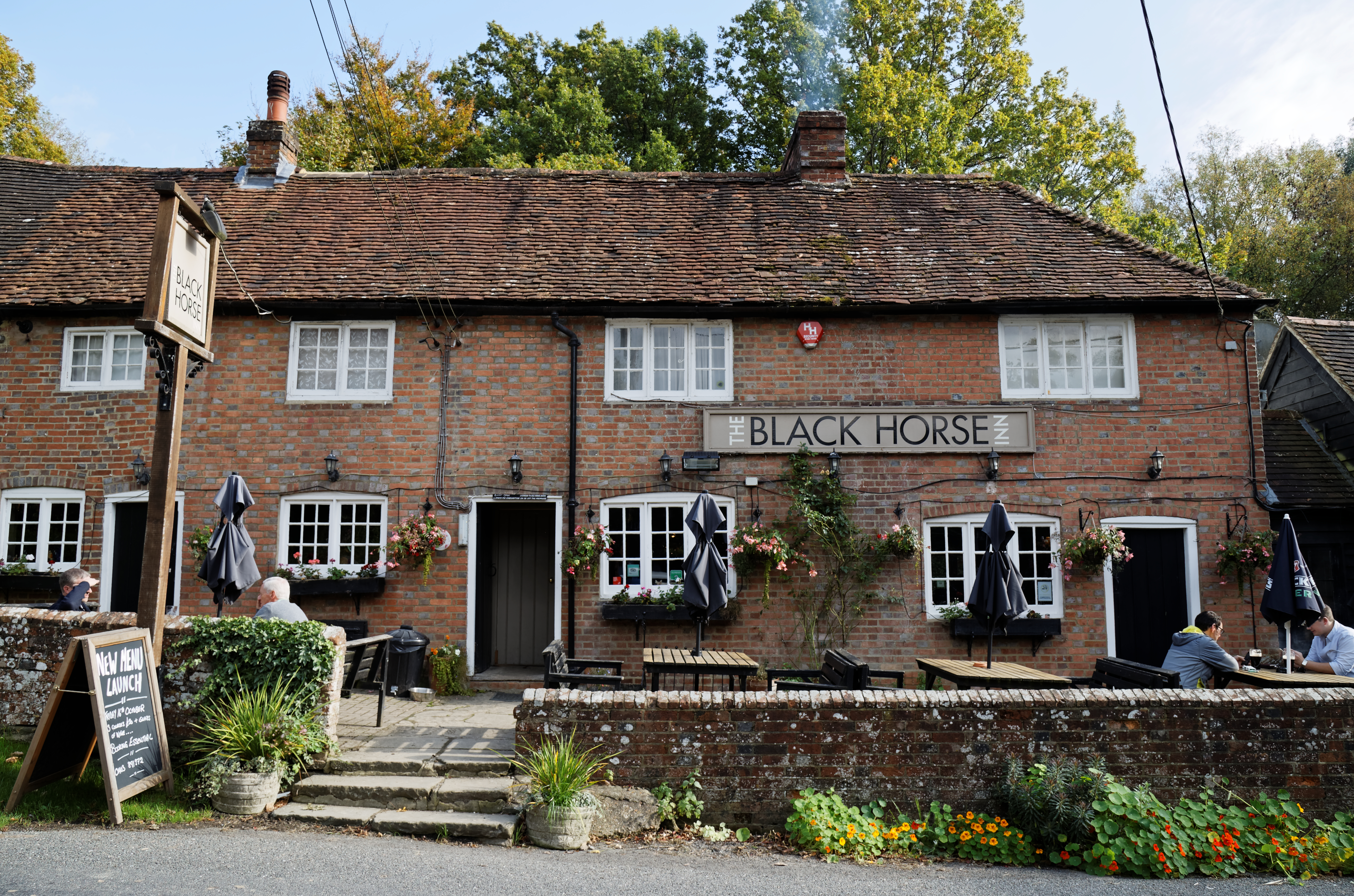 The Black Horse Inn public house, one of Sussex's most haunted pubs, on Nuthurst Street in Nuthurst, West Sussex, England. The Black Horse Inn, reputedly haunted by a local murderer who drank here (see 'Haunted table' of The Black Horse Inn), is part of the 17th-century Black Horse Cottages Grade II listed buildings.Software: RAW file lens-corrected, optimized and converted to JPEG with DxO OpticsPro 10 Elite, and likely further optimized and/or cropped and/or spun with Adobe Photoshop CS2.